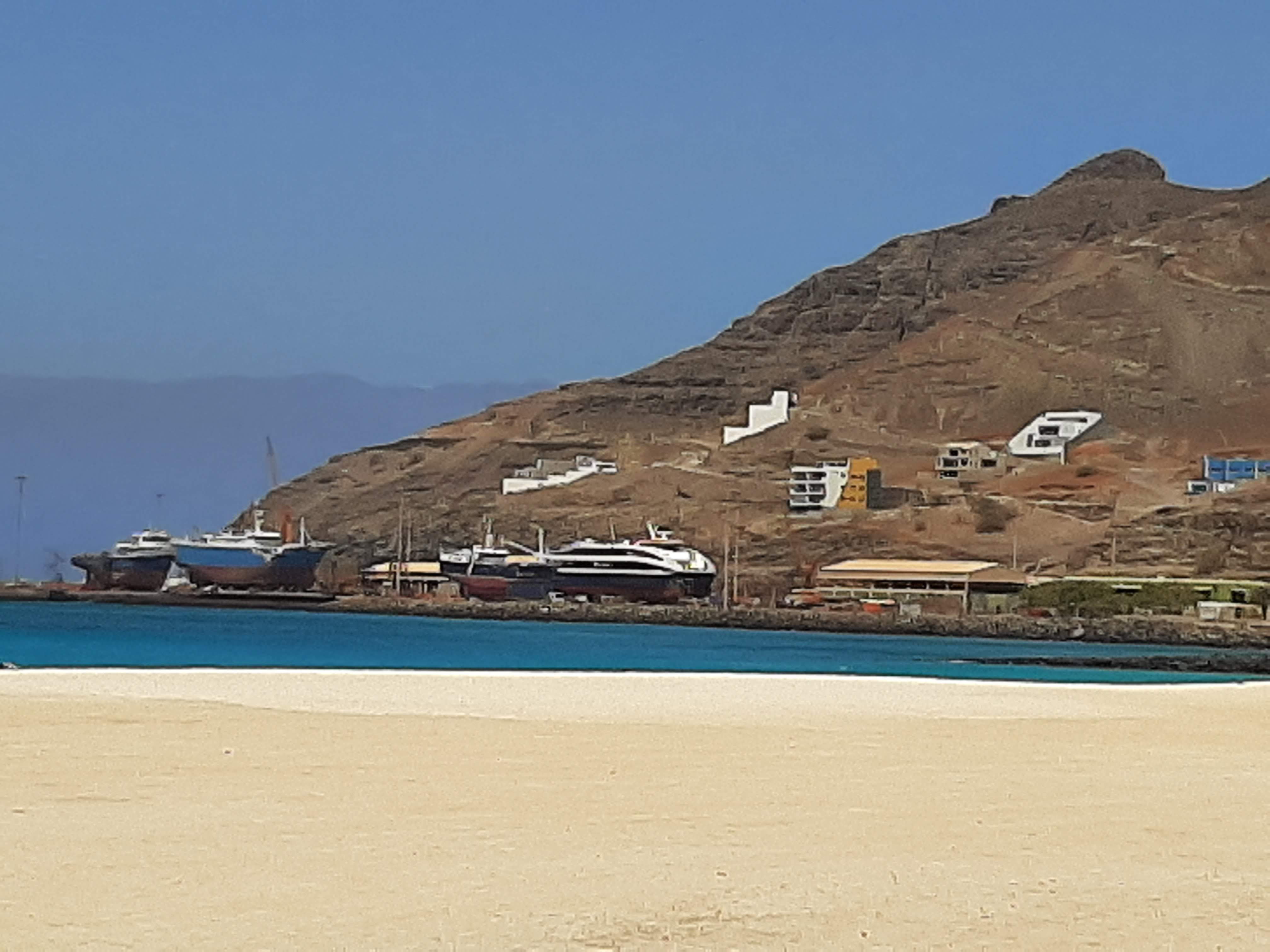 This is an image with the theme "Africa on the Move or Transport" from: Cape Verde